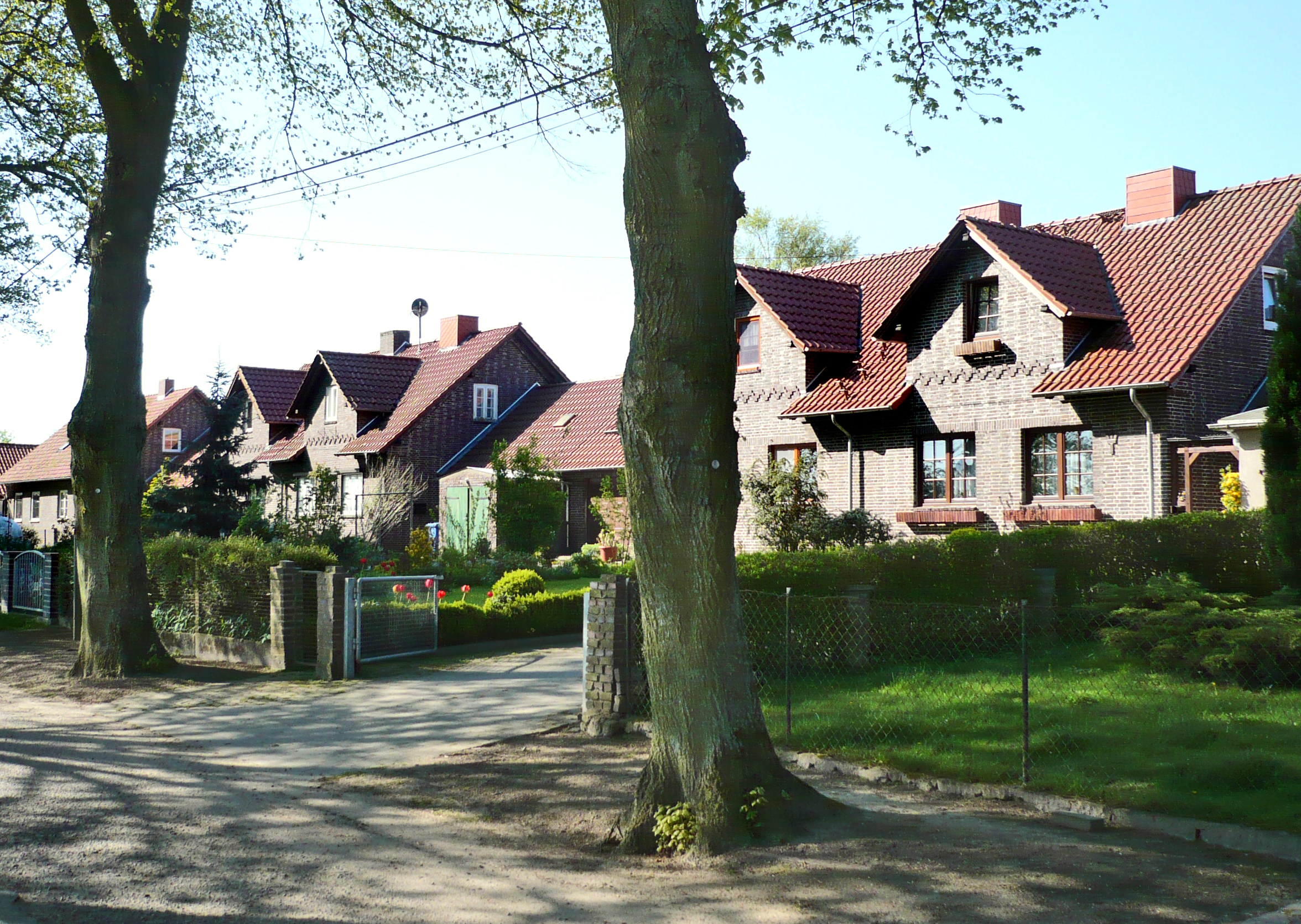 Village Road in Stellshagen